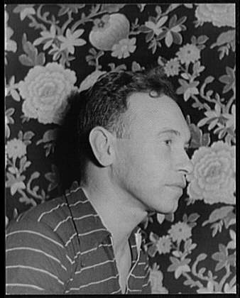 Title: Portrait of Thomas Handforth Abstract/medium: 1 photographic print : gelatin silver.